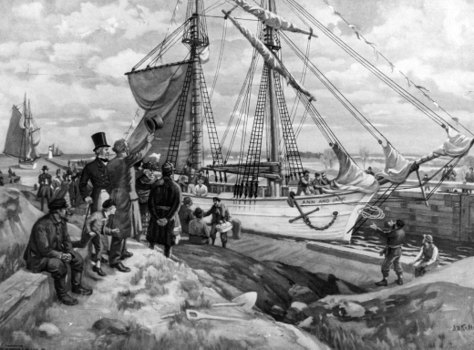 This painting by J.D. Kelly was commissioned by Confederation Life Association. The schooner "Ann and Jane" is shown entering Lock One, at Port Dalhousie when the Welland Canal opened on November 30, 1829.